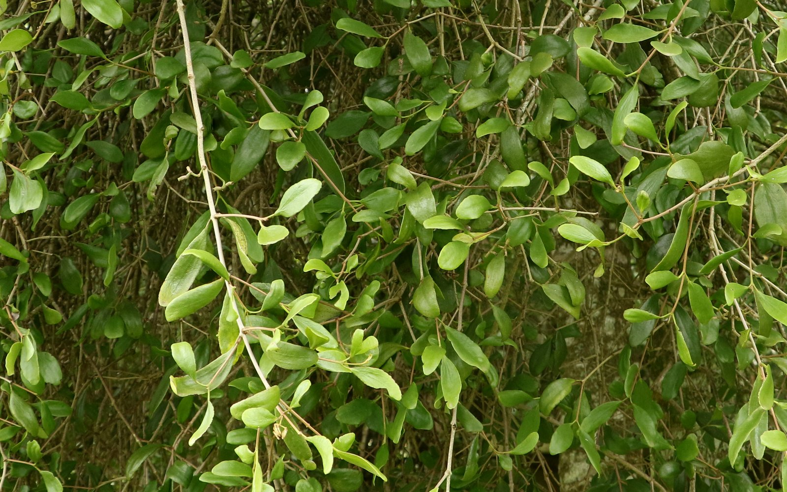 mistletoe. Boorganna Nature Reserve. Likely to be Benthamina alyxifolia, Loranthaceae